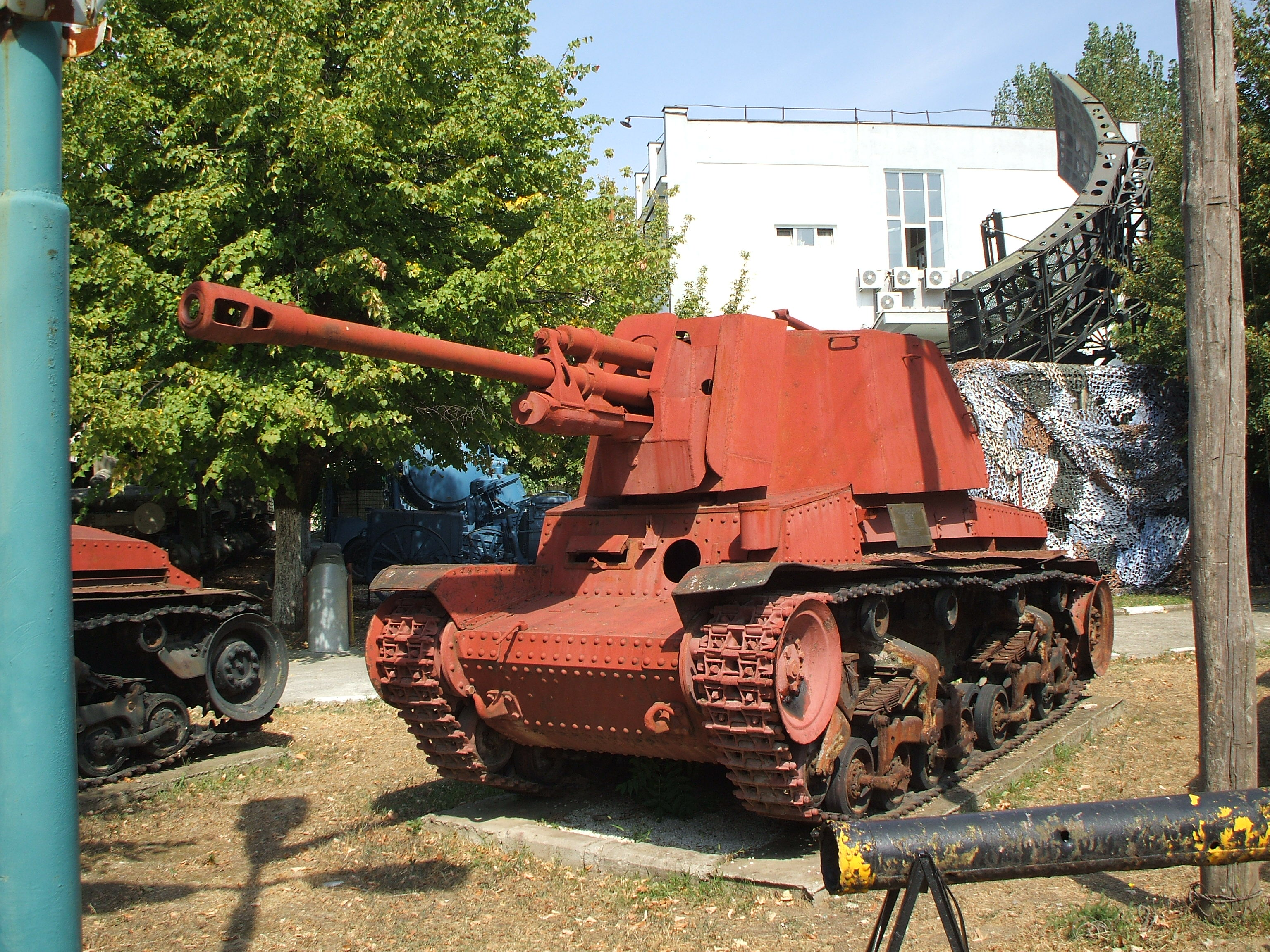 A Romanian TACAM R-2 tank destroyer on display at "King Ferdinand" National Military Museum in Bucharest.